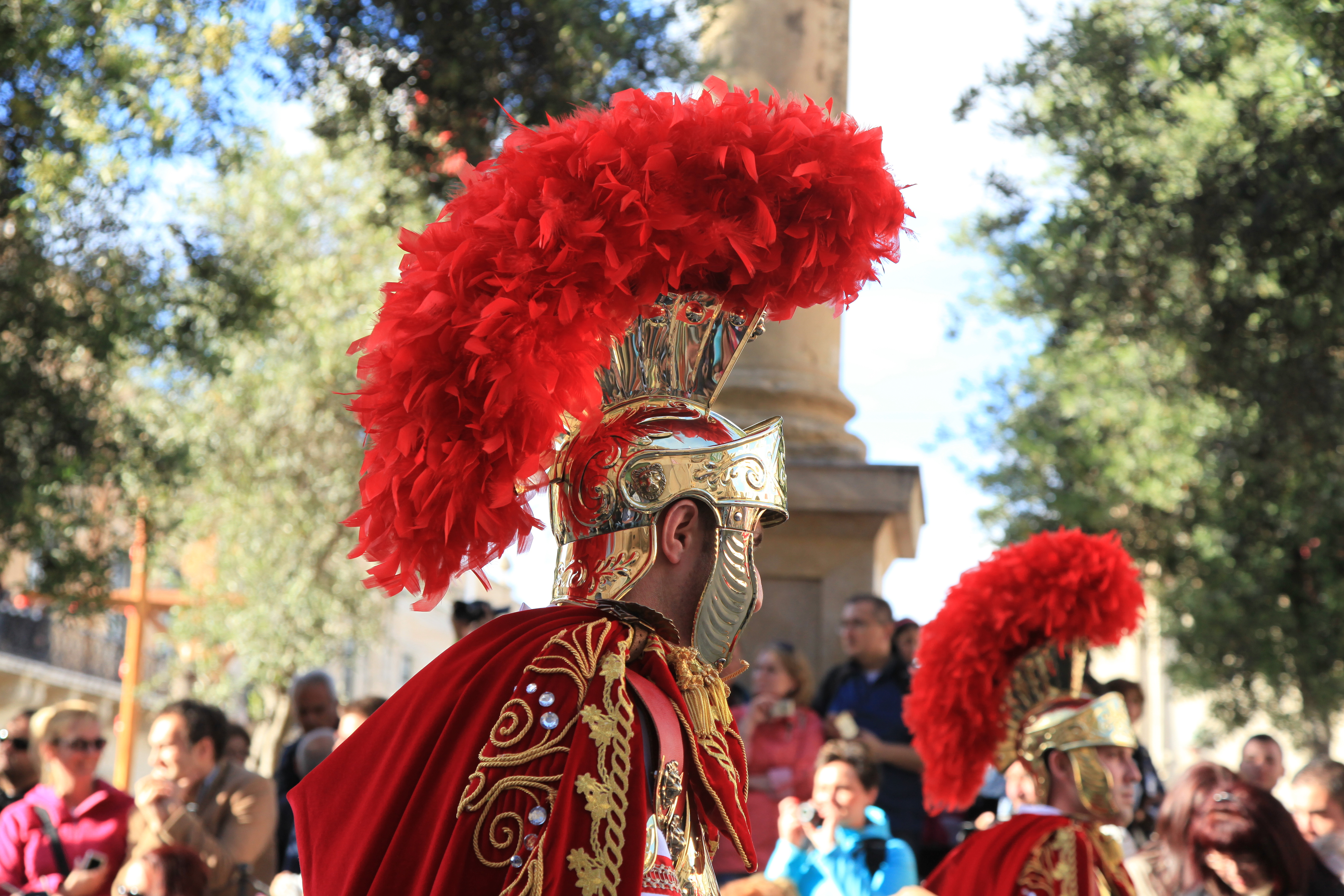 2014 Good Friday procession, Misraħ San Filep in Żebbuġ, Malta